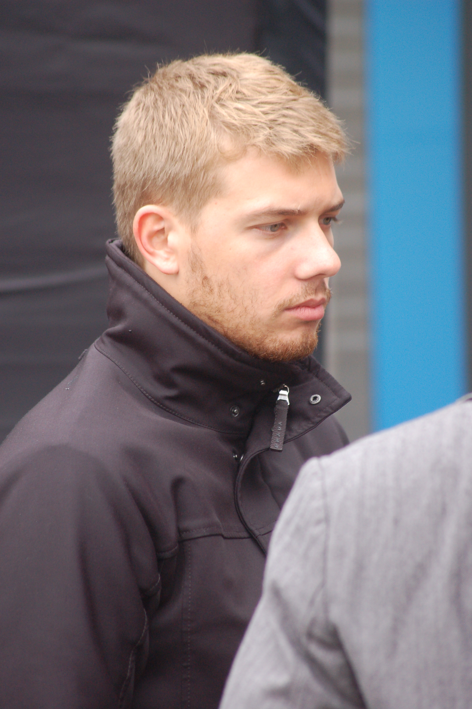 Johannes Stuck at Assen 2011